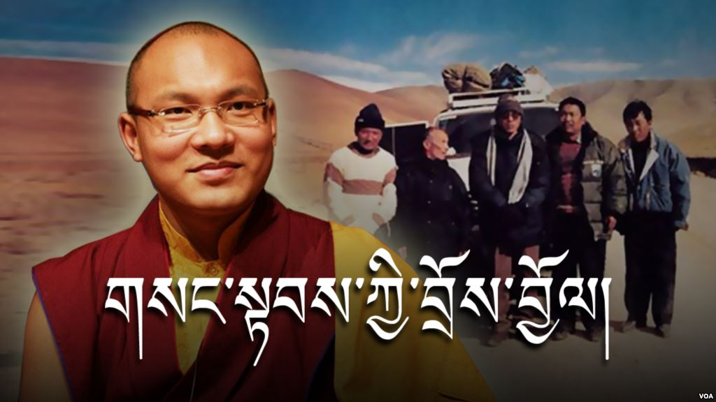 Gyalwa Karmapa’s Escape from Tibet